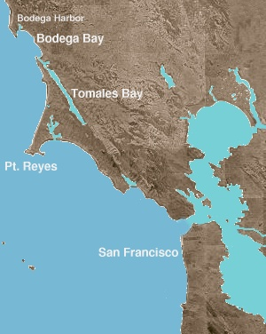 Bodega Bay © 2004 Matthew Trump